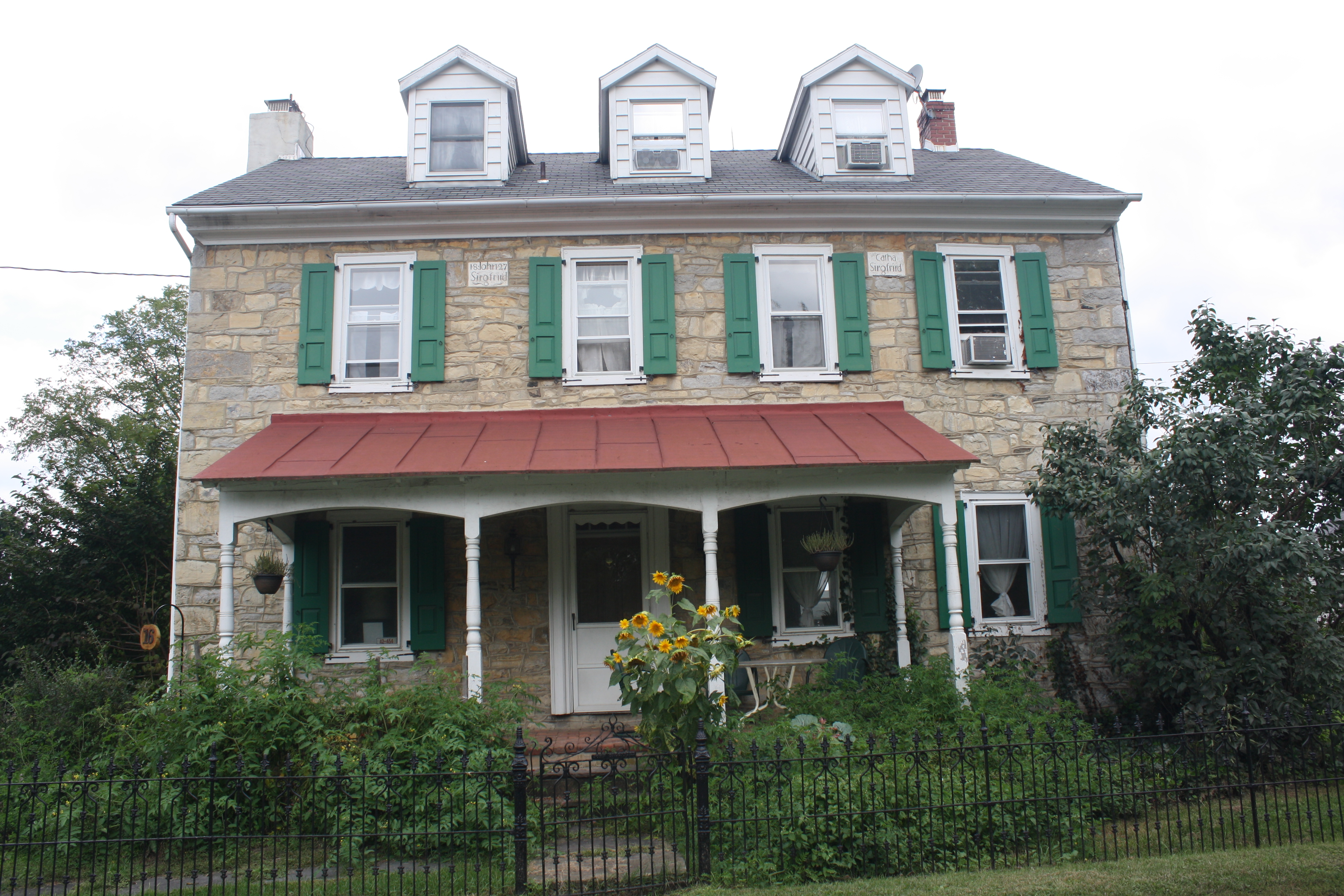 Siegfried's Dale Farm, also known as the Rodale Research Center or Rodale Institute, is a historic home and farm complex located in Maxatawny Township, Berks County, Pennsylvania. Henry and Catherina Siegfried House.